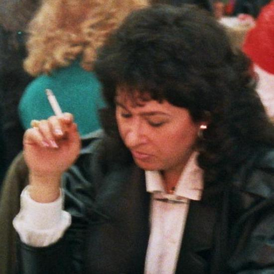 Lena Glaz (Israel), Chess Olympiad 1988 in Thessaloniki, Photographer Gerhard Hund.